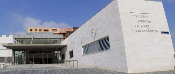 Entrada al centro.